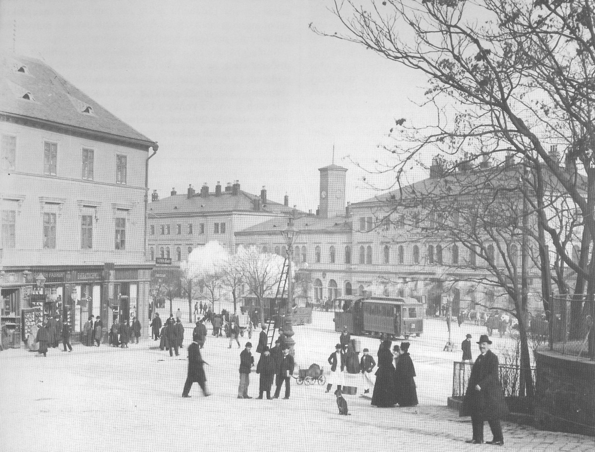 Steam trams with trailer No. 31, Brno, Moravia (now Czech Republic)